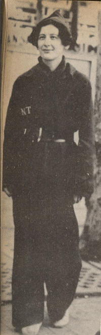 Simone Weil (1909–1943) – a French philosopher, Christian mystic and political activist of Jewish origin. Simone Weil, a soldier during the Spanish Civil War (1936).